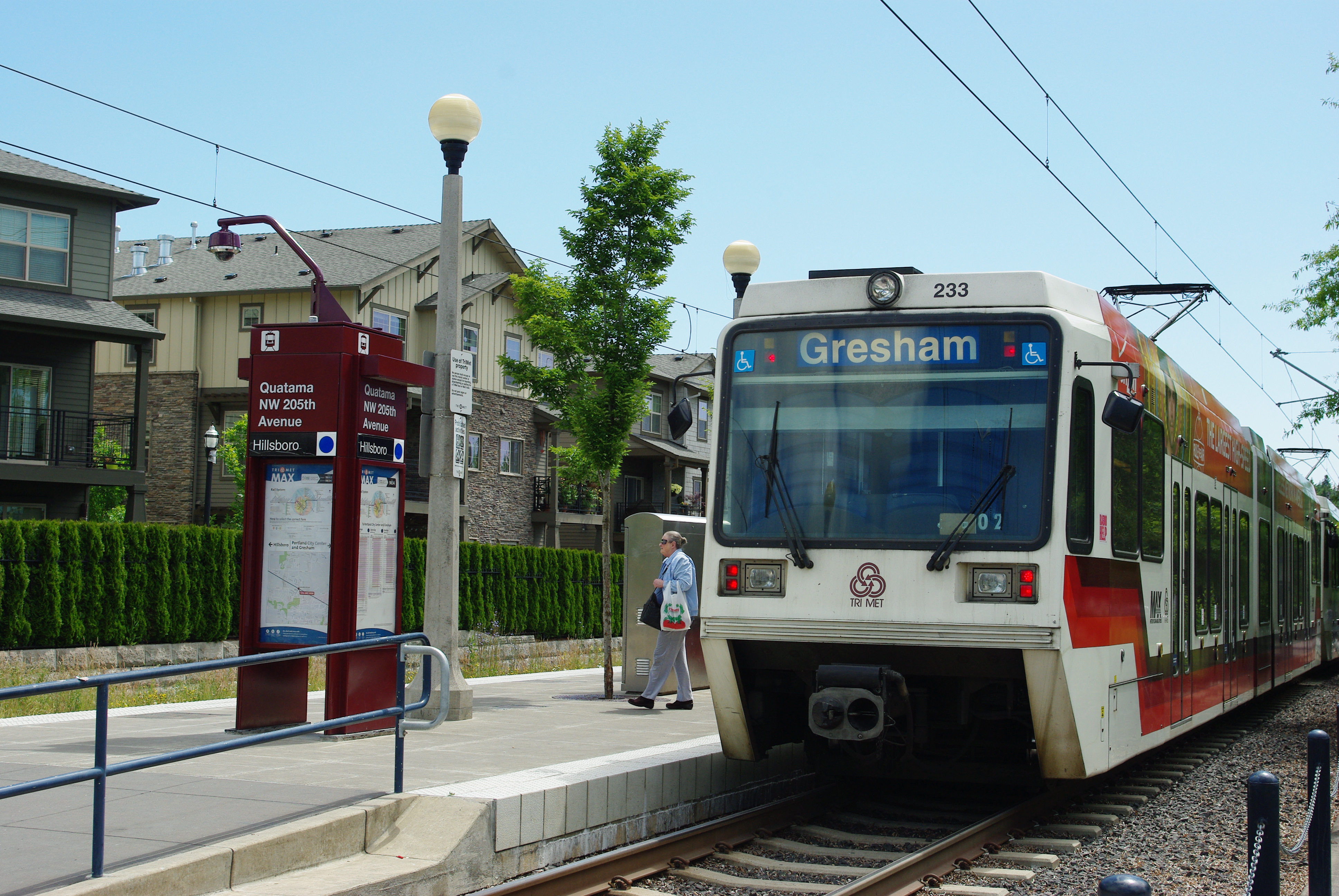 Eastbound MAX train stopped at Quatama / Northwest 205th Avenue (MAX station) in Hillsboro, Oregon.